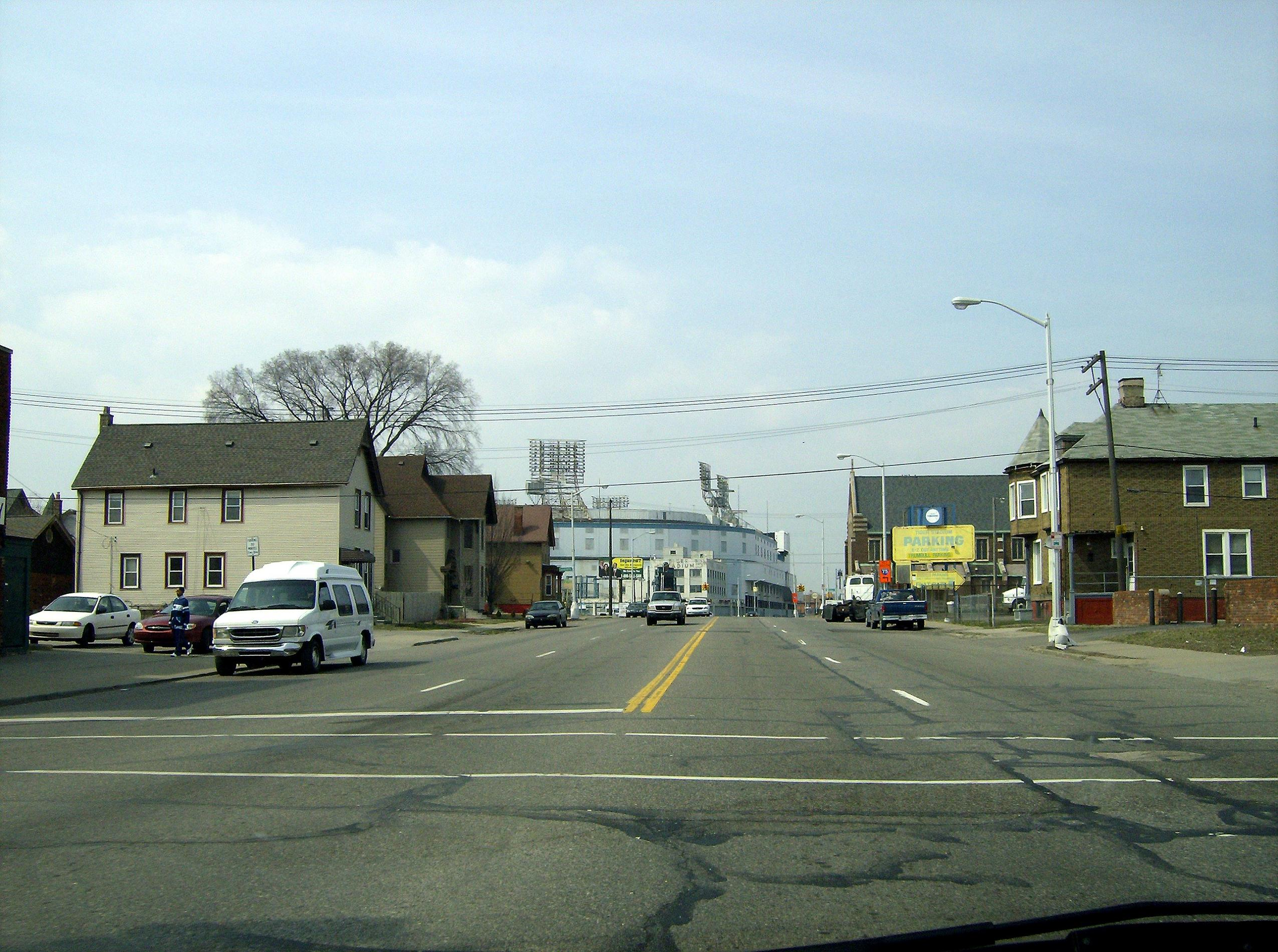 View of Trumbull Avenue as it passes through the Corktown neighborhood and Corktown Historic District in Detroit, Michigan, United States. The historic district is listed on the US National Register of Historic Places (NRHP) as #78001517. Tiger Stadium is in the distance.